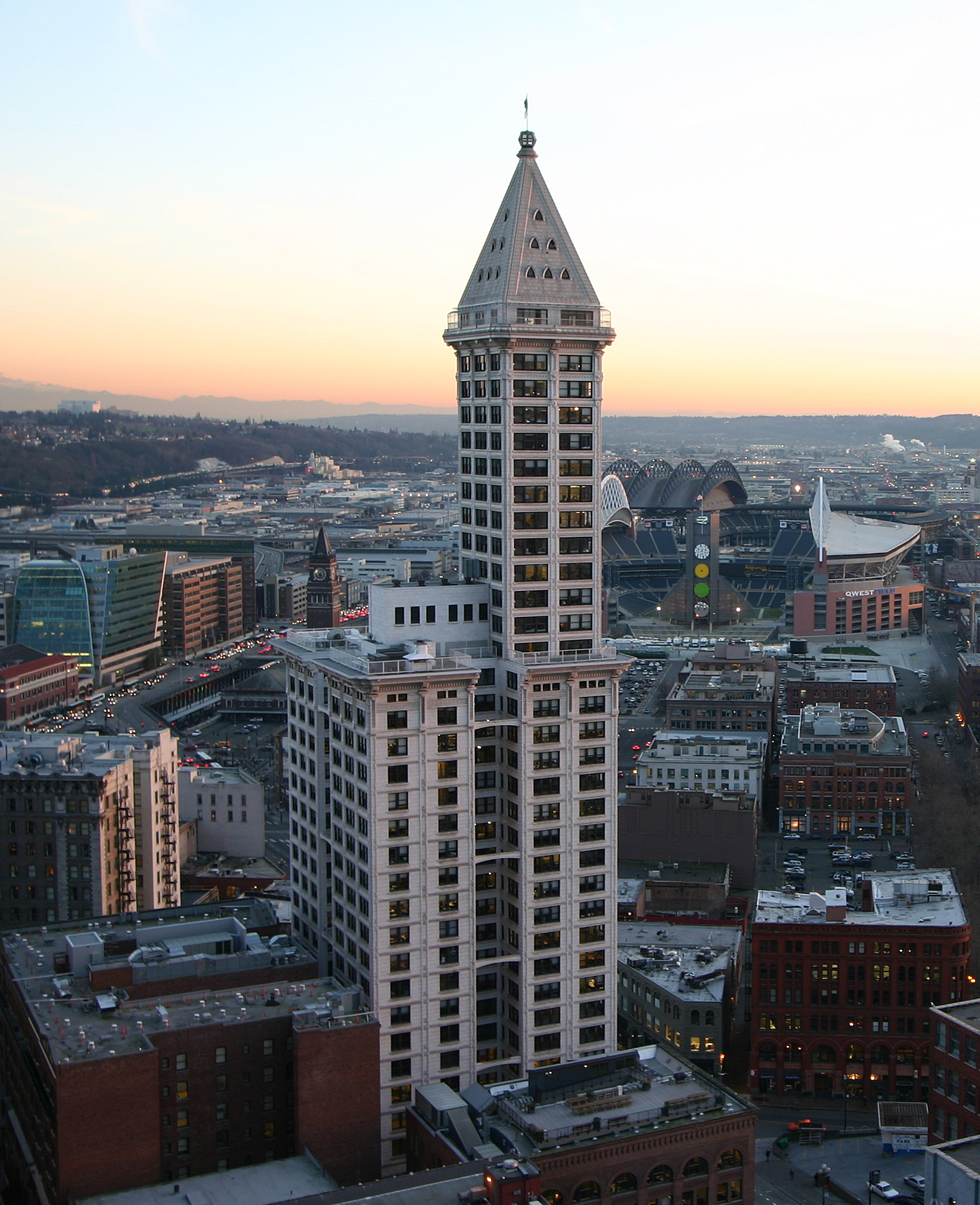 Straighten and crop of Image:SmithTower Seattle WA USA.jpg